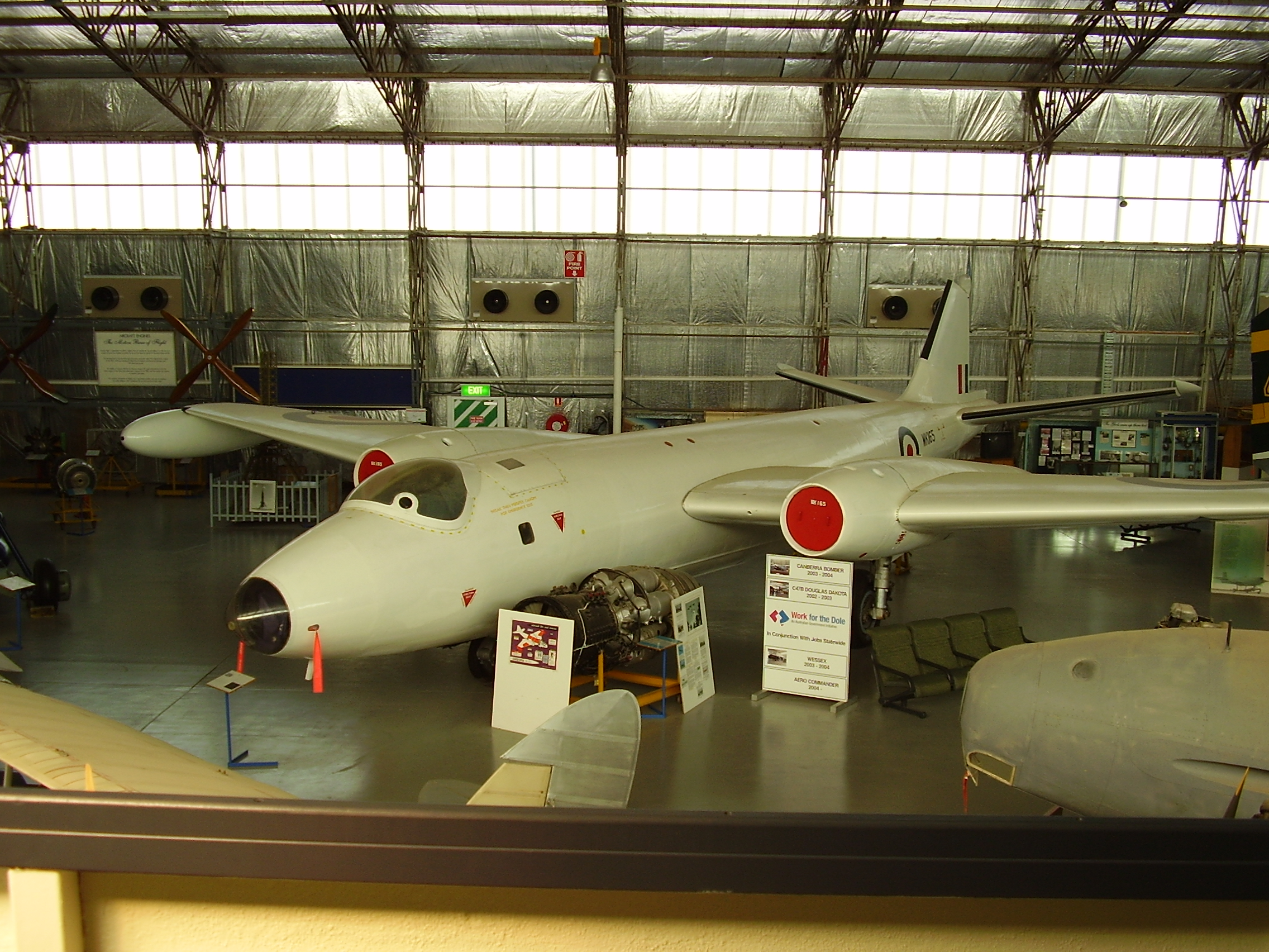 An Australian Canberra bomber. At the South Australian Aviation Museum, Port Adelaide, Adelaide, South Australia.